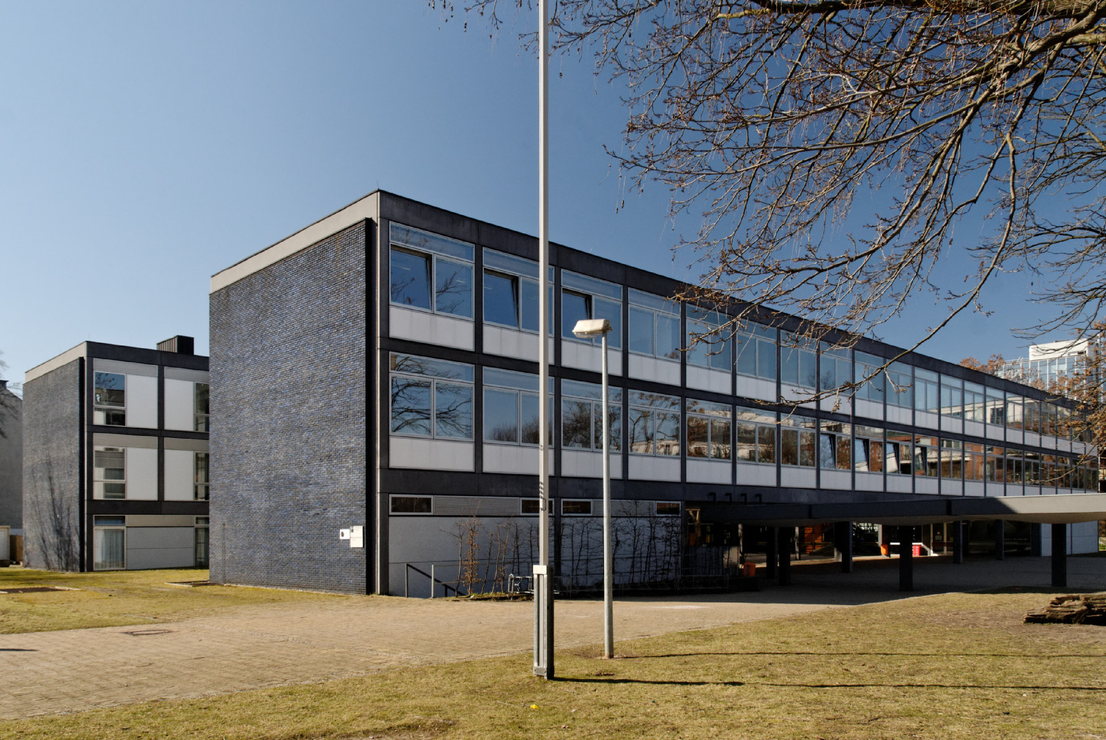 Rolandschule in Düsseldorf-Golzheim, Germany